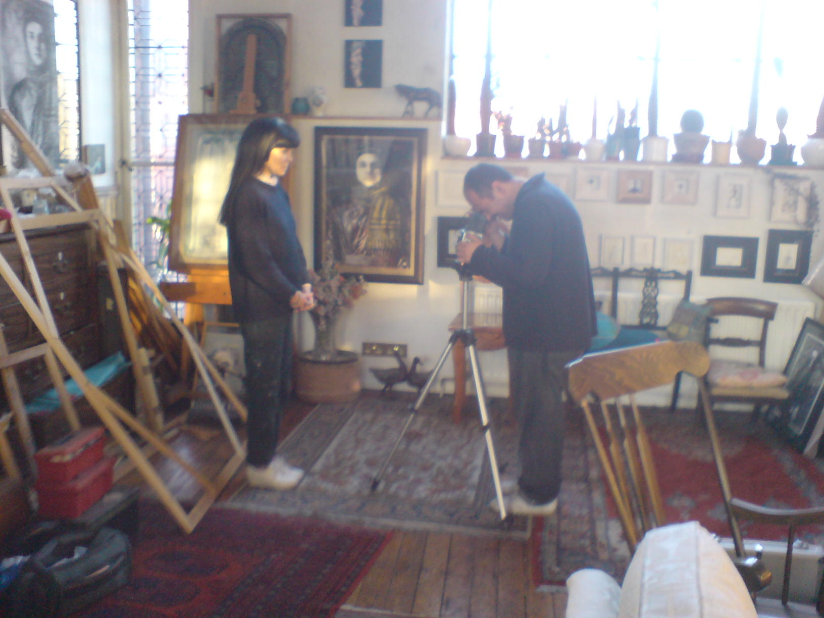 Photographer Matthew R Lewis taking portrait of Artist Claire Shenstone in her studio. London.